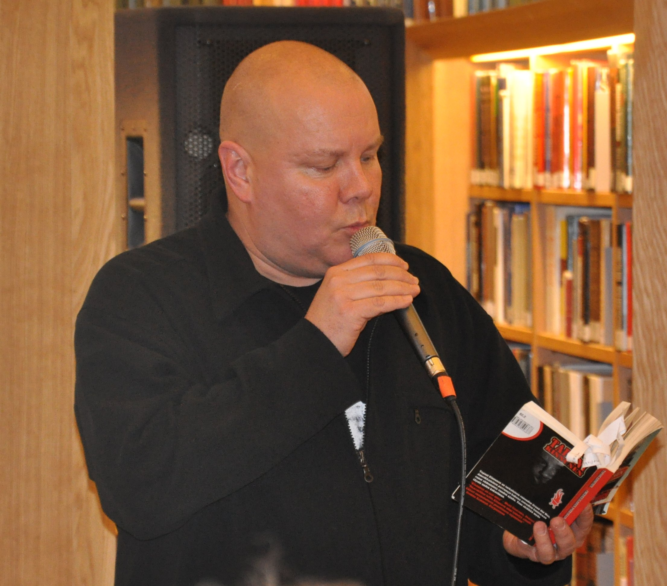 Finnish poet Tapani Kinnunen reading poems at Turku Main Library.